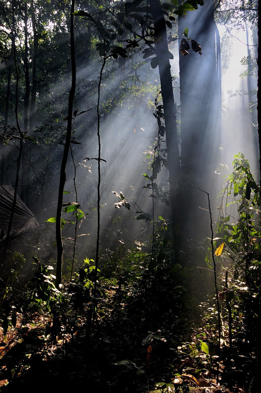 Centra African Republic rainforest. Dzanga Sangha Ndoki